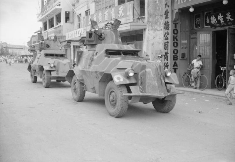 Armoured cars of the Royal Air Force Regiment on patrol in a street in Batavia after a period of increased fighting between indonesian nationalists and the colonial authorities.